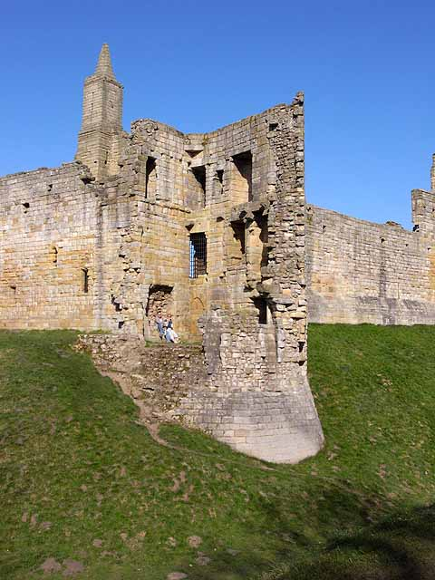 South-west tower, Warkworth Castle Two visitors are enjoying a belated spring in a suntrap at the south-west corner of the Castle.